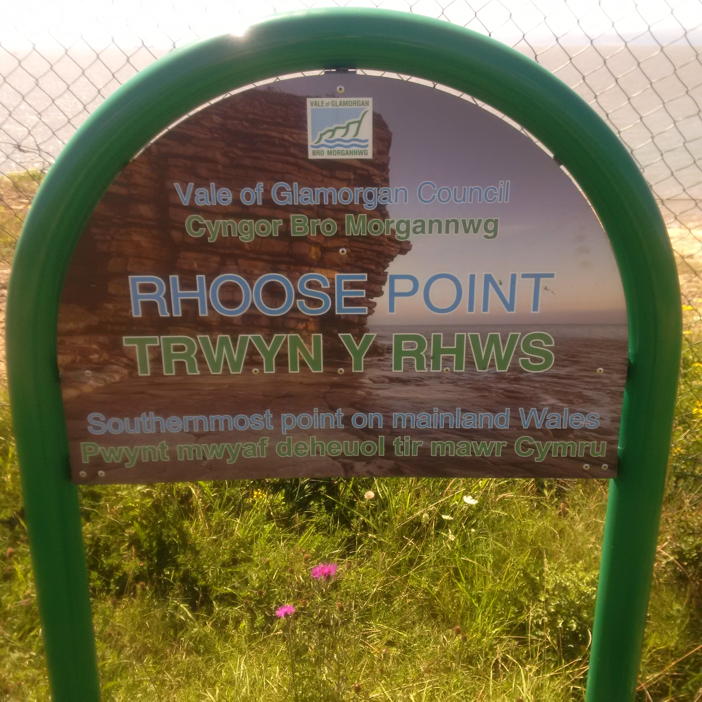 The sign at Rhoose Point that shows that it is the southernmost point of mainland Wales